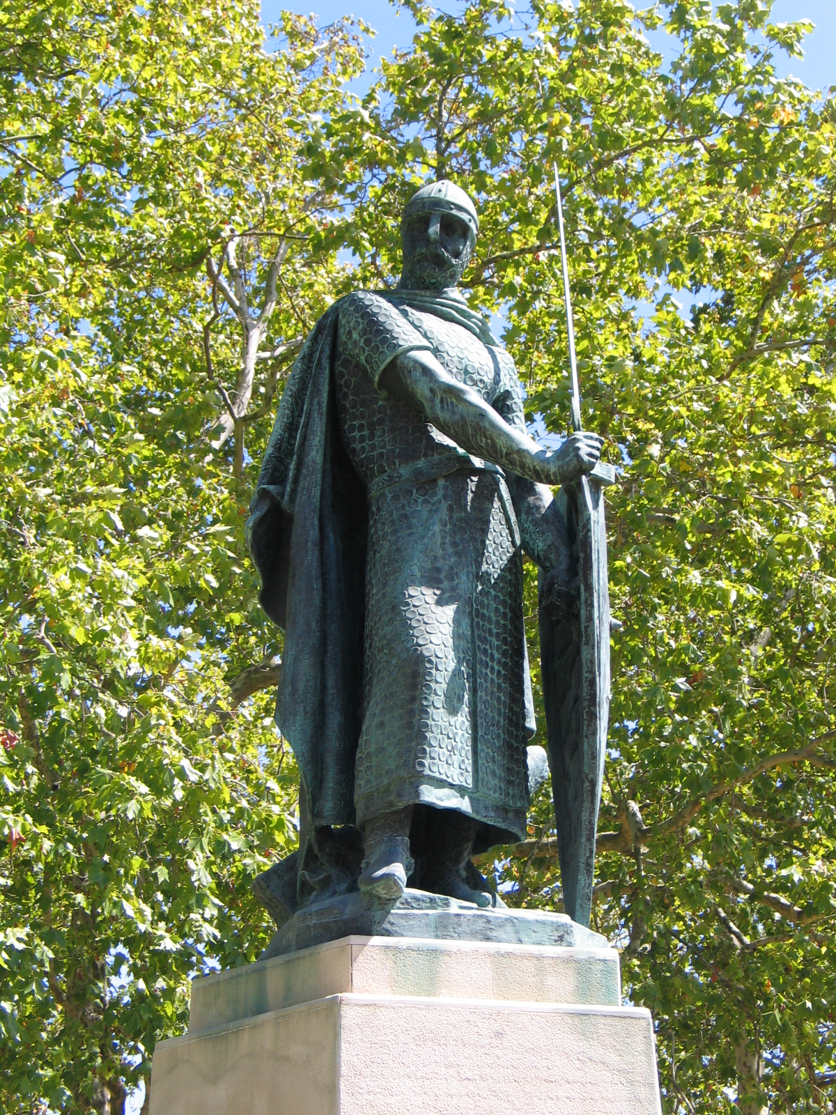 Statue of King Afonso I in Porta do Sol, Santarén, Portugal